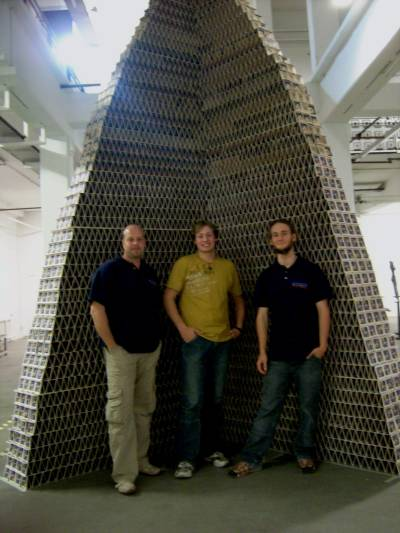 Sven Goebel für Galileo (TV). Hier fertiger Turm zusammen mit zwei Amateur-Bierdeckelstaplern.